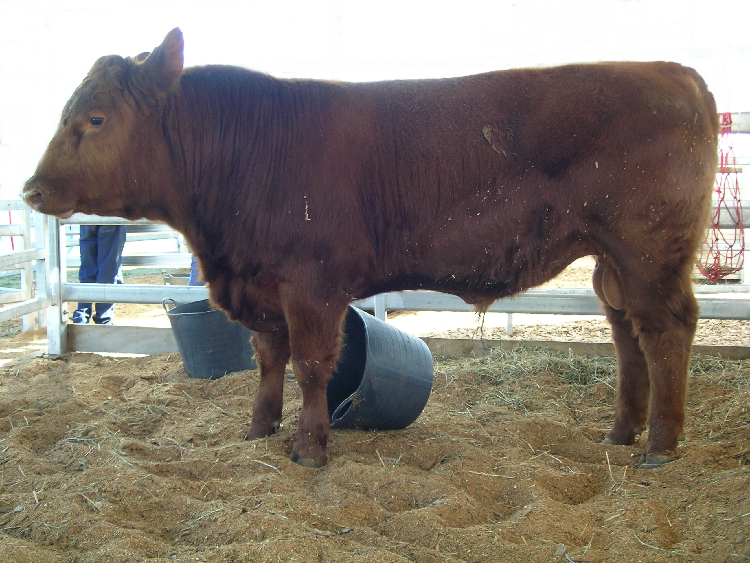 A Red Angus bull at AgQuip.